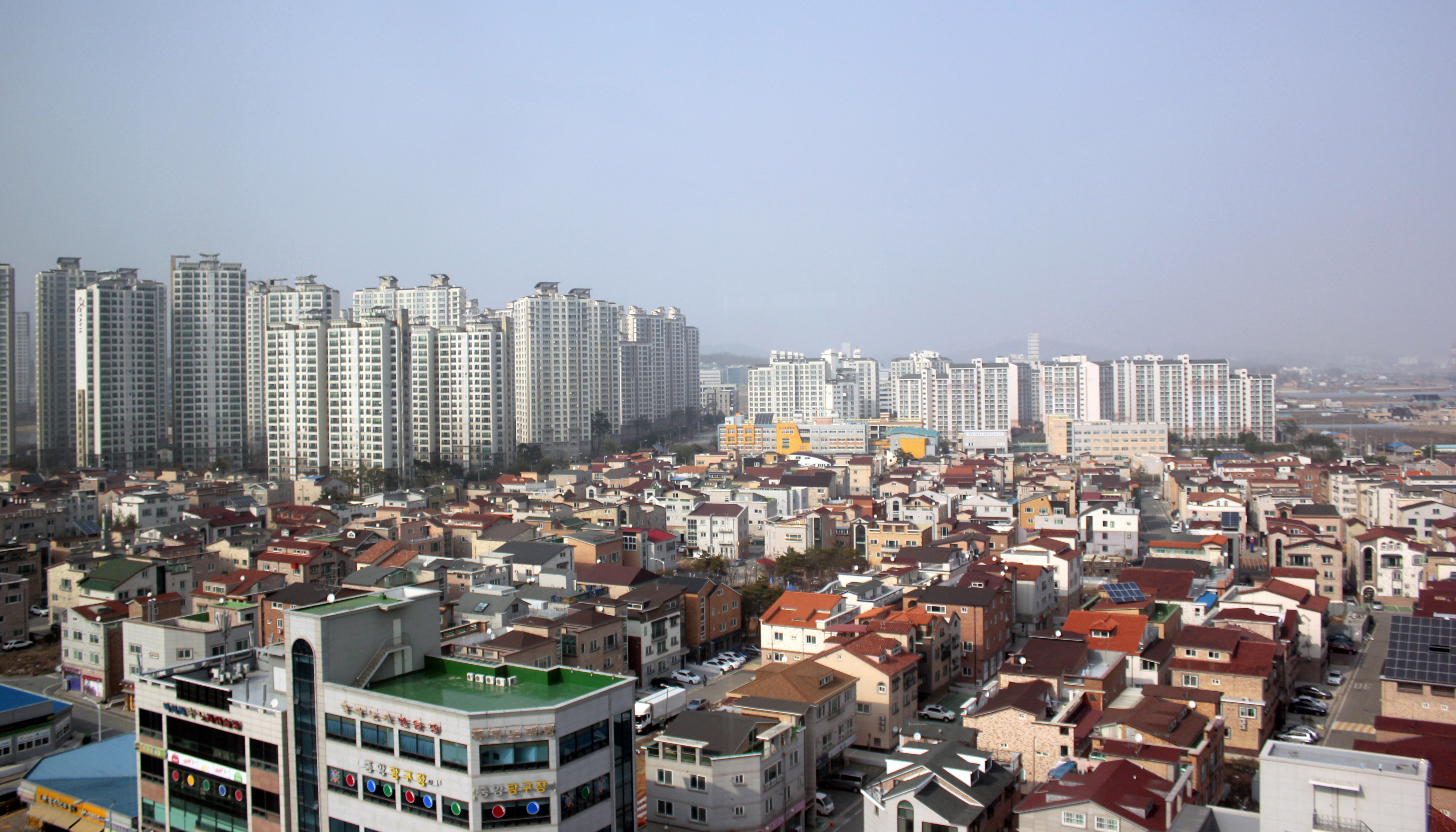 Cityscape of Osong-eup, Cheongju, Chungcheongbuk-do, South Korea